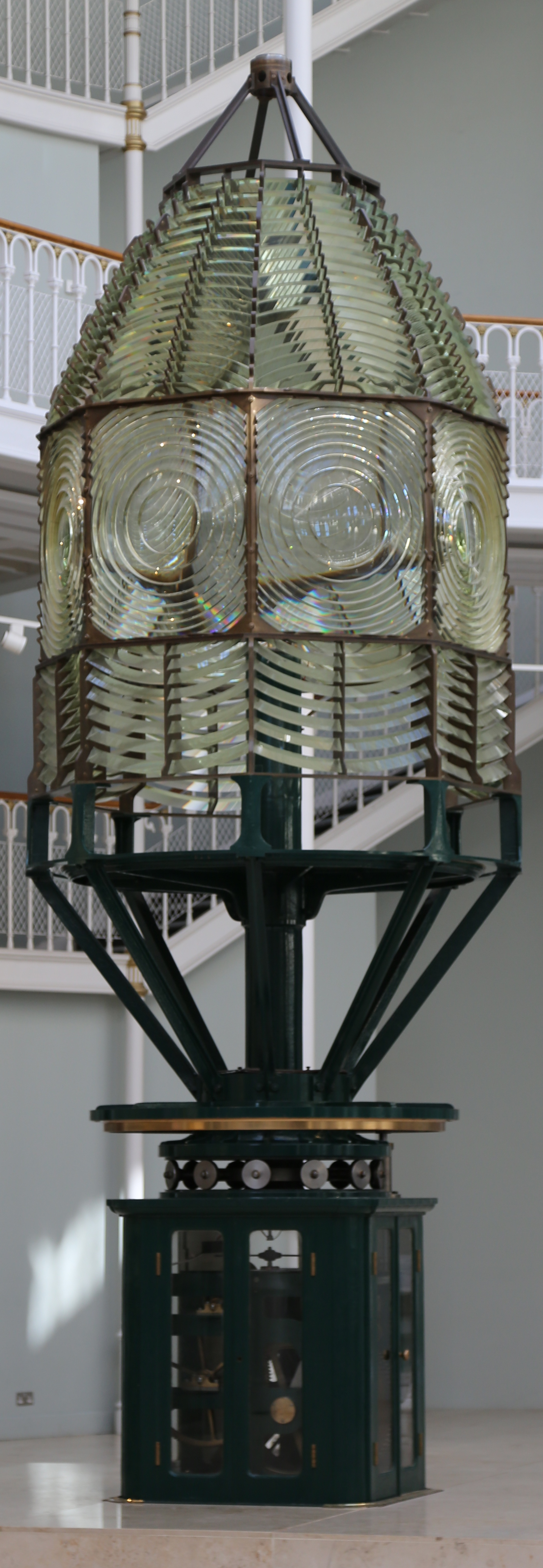 Photo of the Fresnel lens and drive mechanism from Inchkeith lighthouse. Originally built in 1889